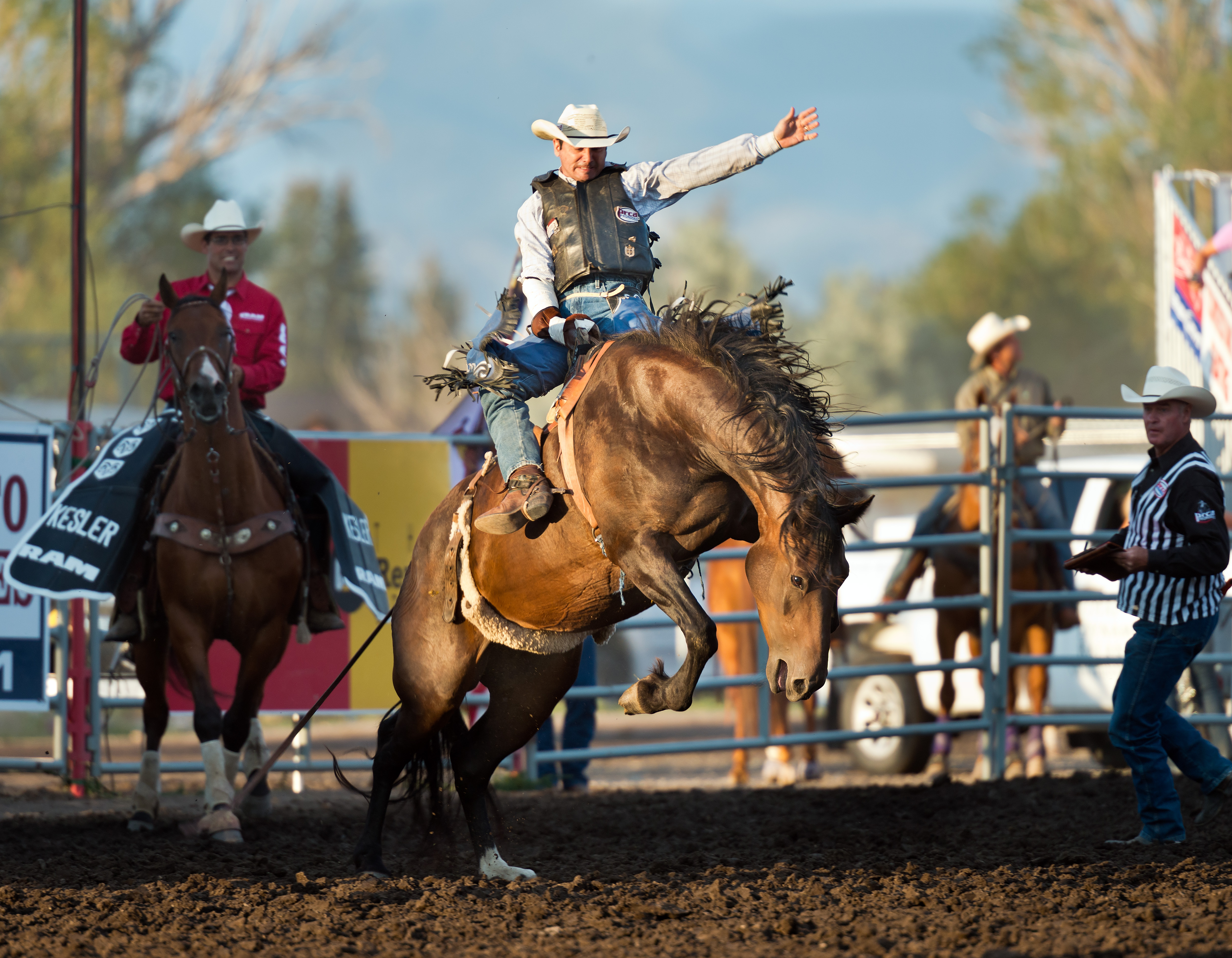 Last Chance Stampede and Fair 2012